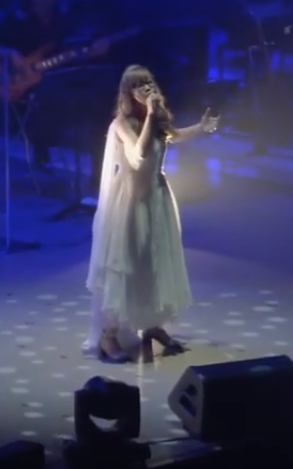 Aimer live.